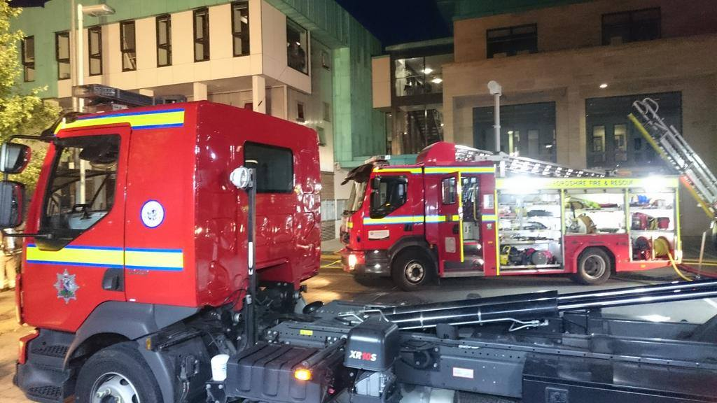 Prime Mover Unit with its unit deployed.